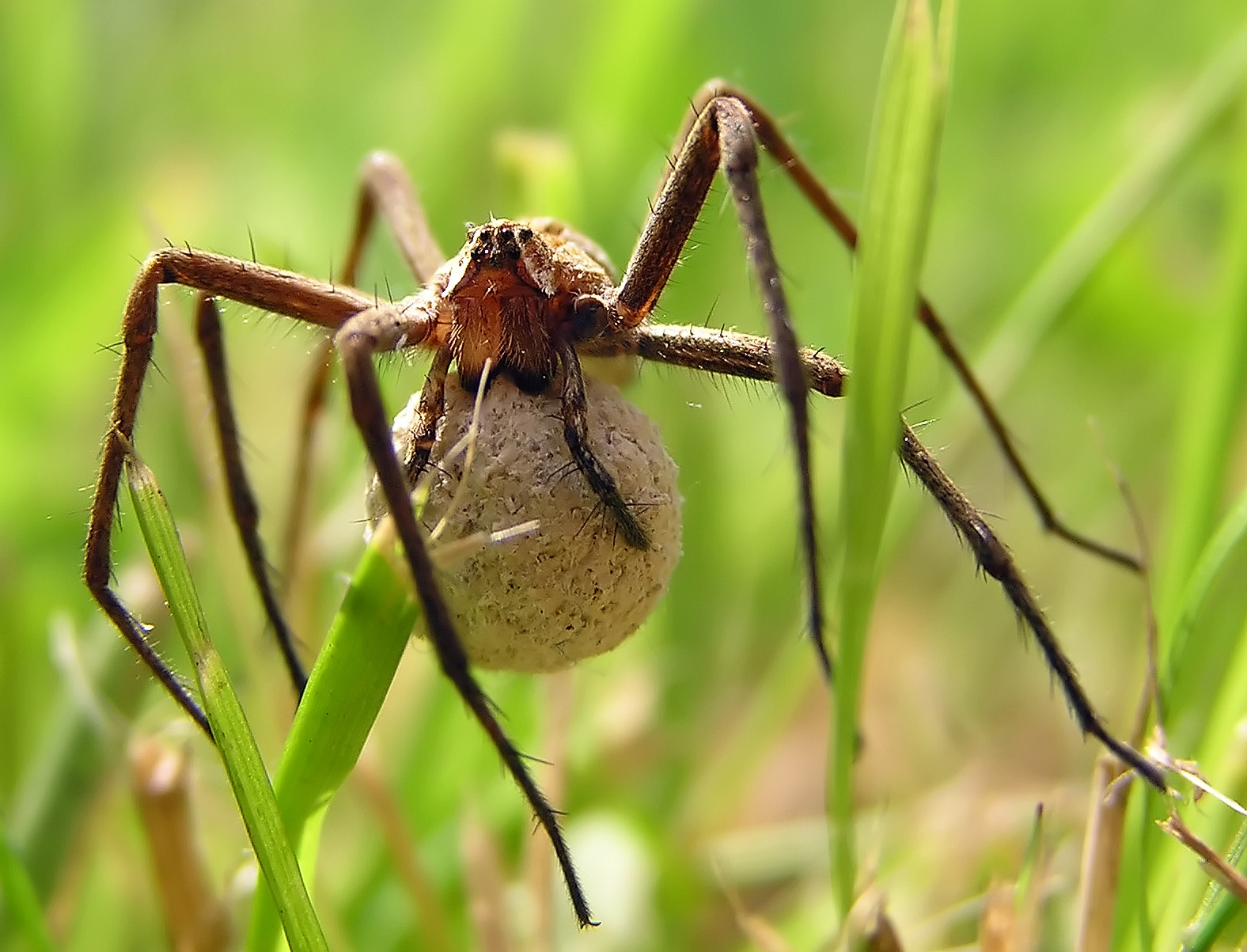 Pisaura Mirabilis carrying egg sac. One of the front limbs is missing. Photo is taken in Kristiandsand, Norway, 2005-07-10.